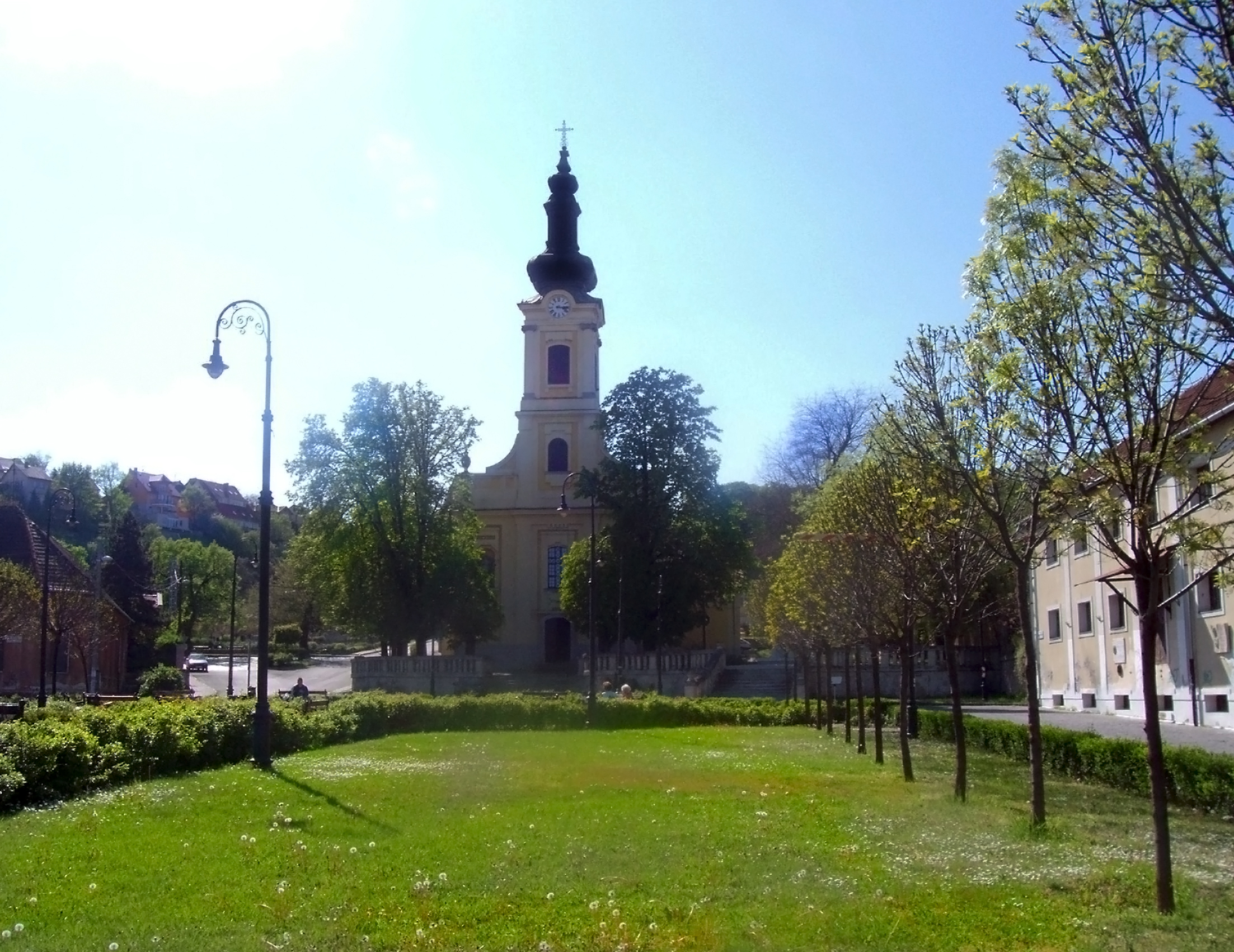 Church from Budapest 22